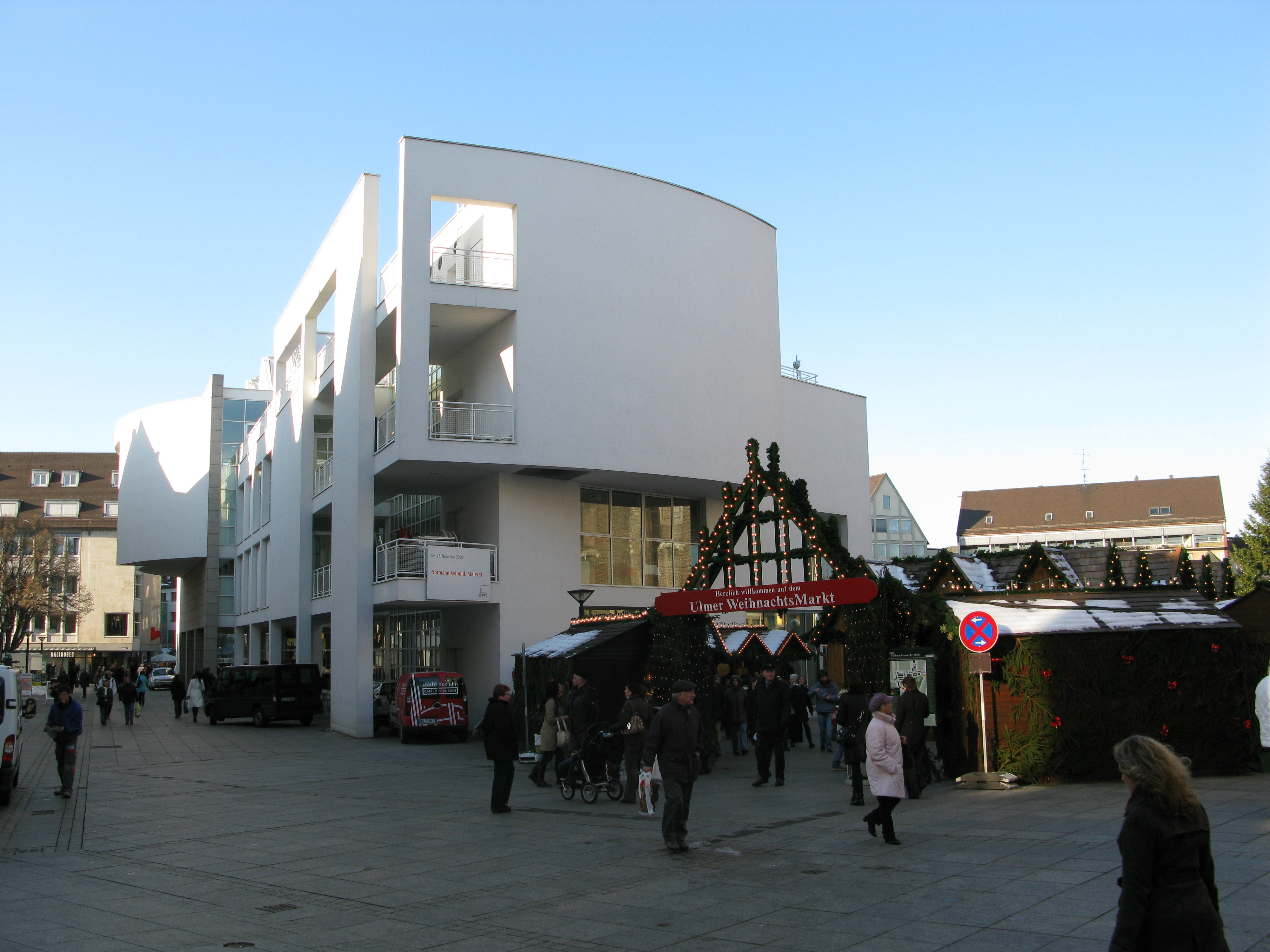 The Stadthaus Ulm and the entrance to the Christkindlmarkt (Christmas market) in Ulm at the Münsterplatz.